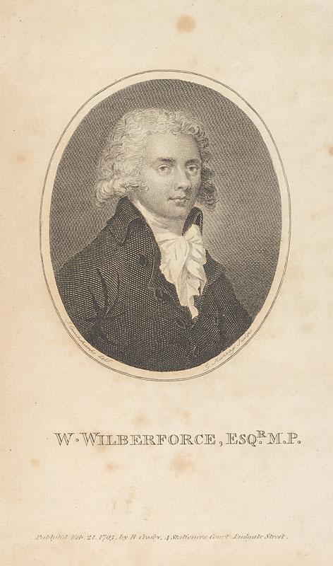 William Wilberforce (1759-1833). Courtesy of the collections of the Harvard Law School Library.